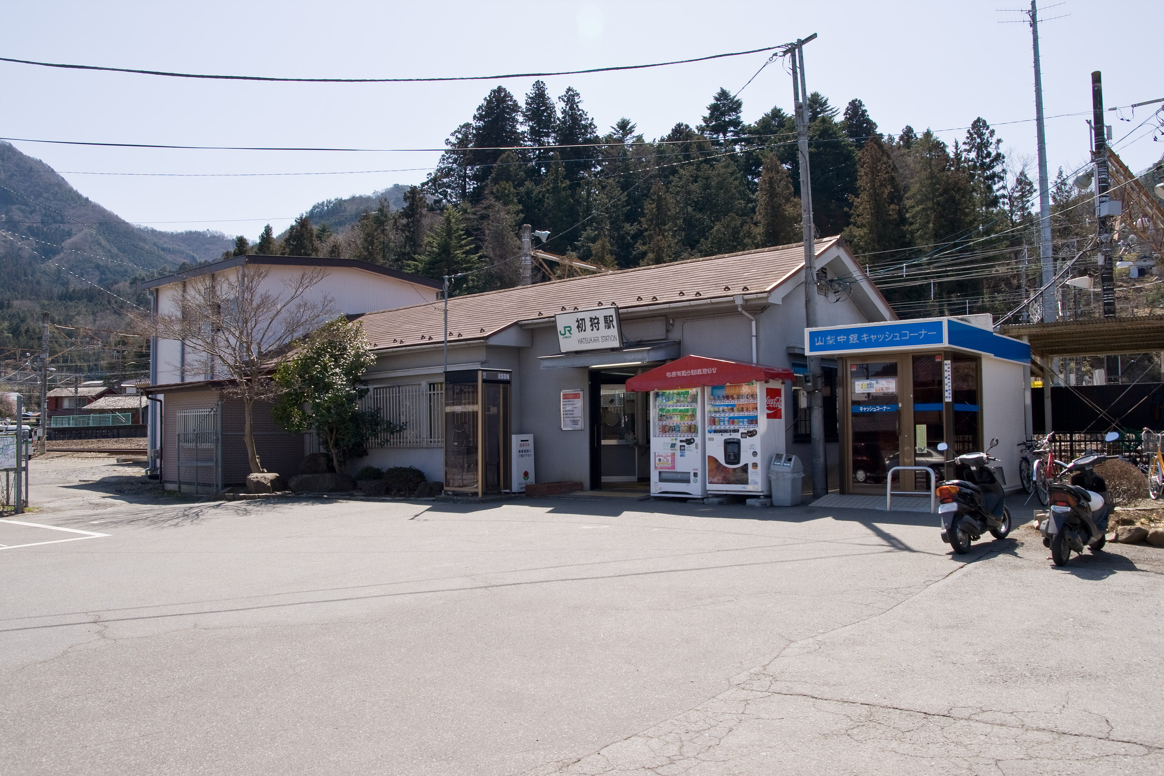 Hatsukari Station in Otsuki City, Yamanashi Prefecture, Japan.